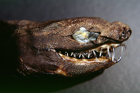 Viper dogfish (Trigonognathus kabeyai) from Hawaii